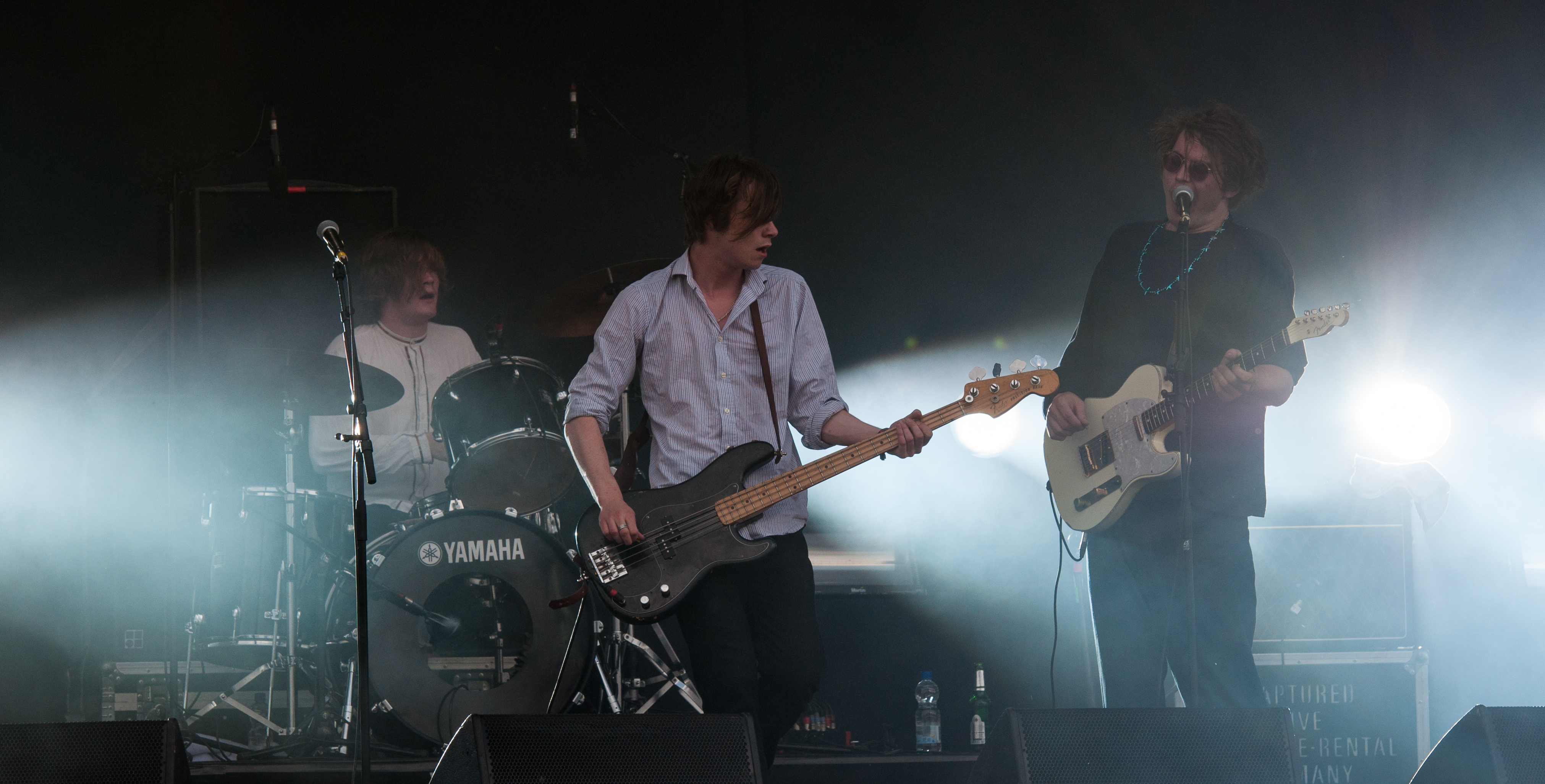 Palma Violets at Rock am Ring 2013